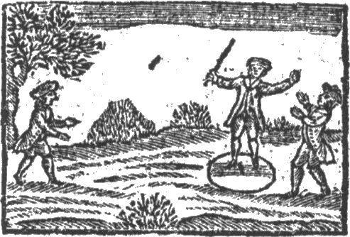 Image from A Little Pretty Pocket-book